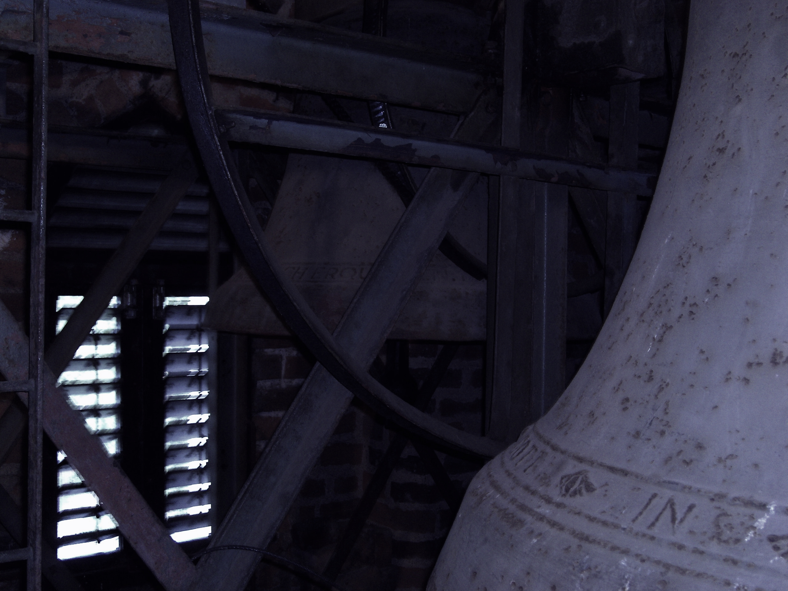 The bells of the Gnadenkirche in Leipzig-Wahren.